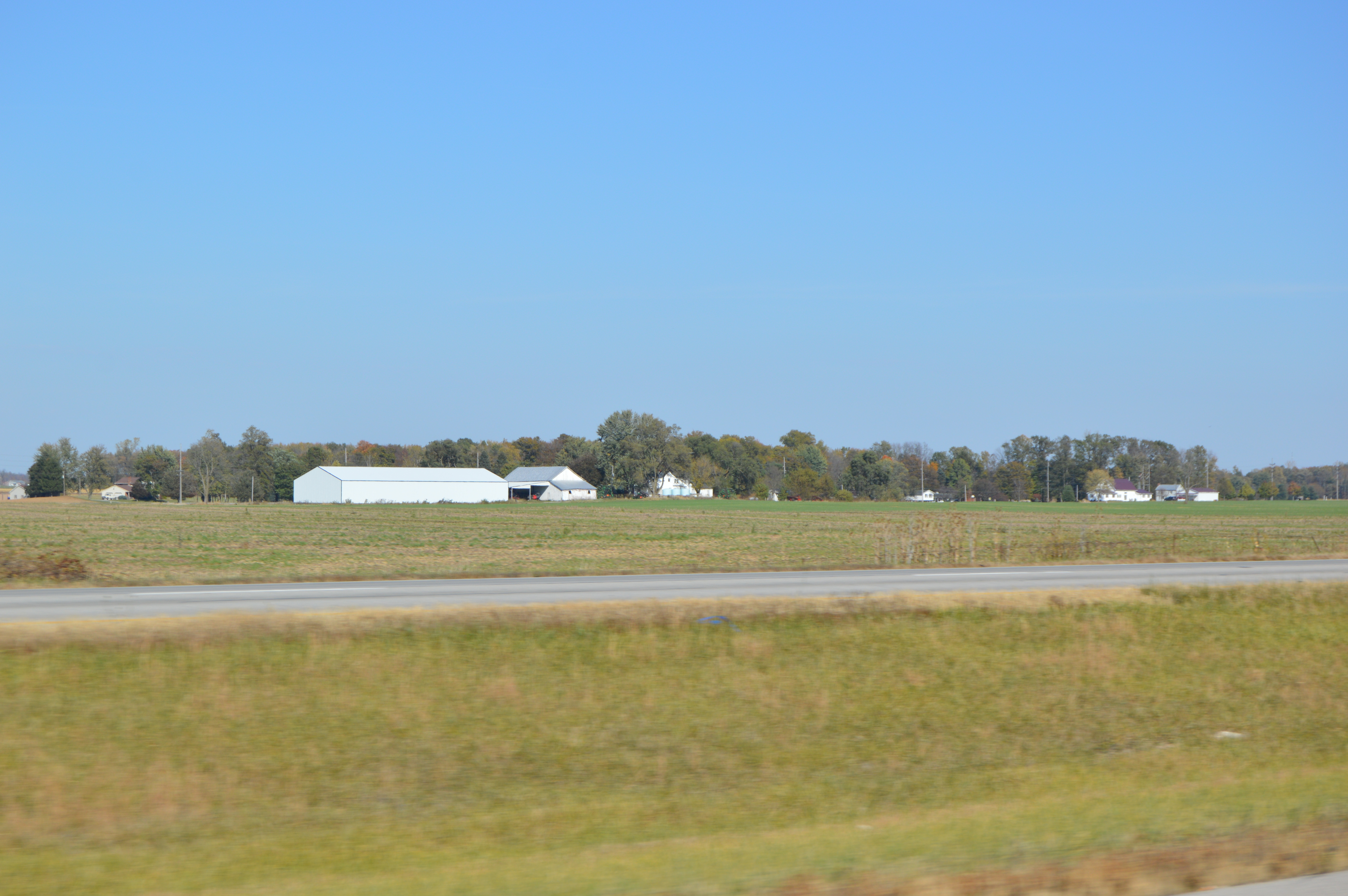 Looking northeast from U.S. Route 30 toward Quaker Road farmsteads northwest of Bucyrus in Holmes Township, Crawford County, Ohio, United States.